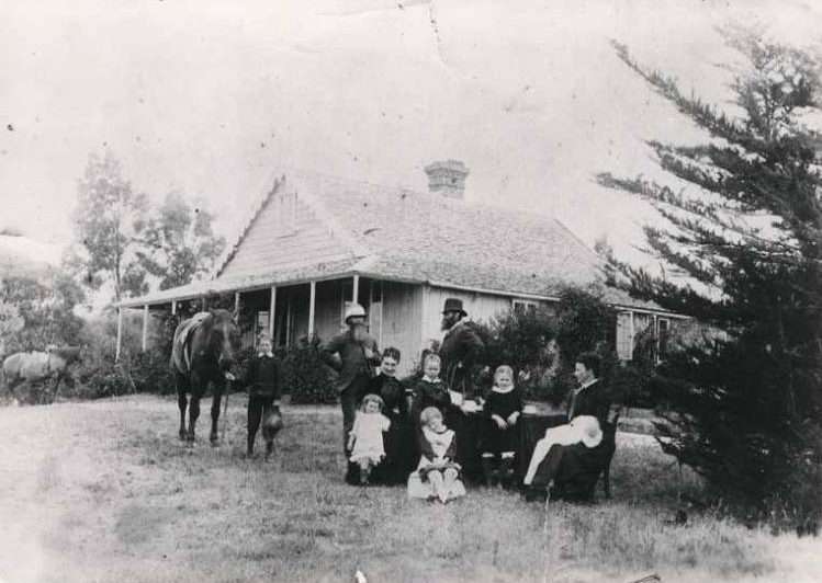 Edward (1843–1905) and Eleanor (1851–1935) Coates and family. Ruatuna House is registered by the New Zealand Historic Places Trust as a Category I structure, with registration number 7.